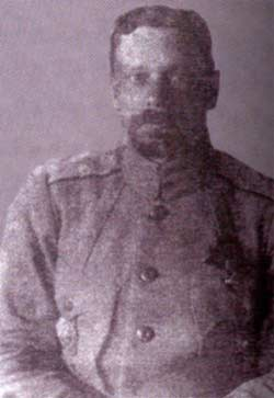 Kappel winter 1919-1920